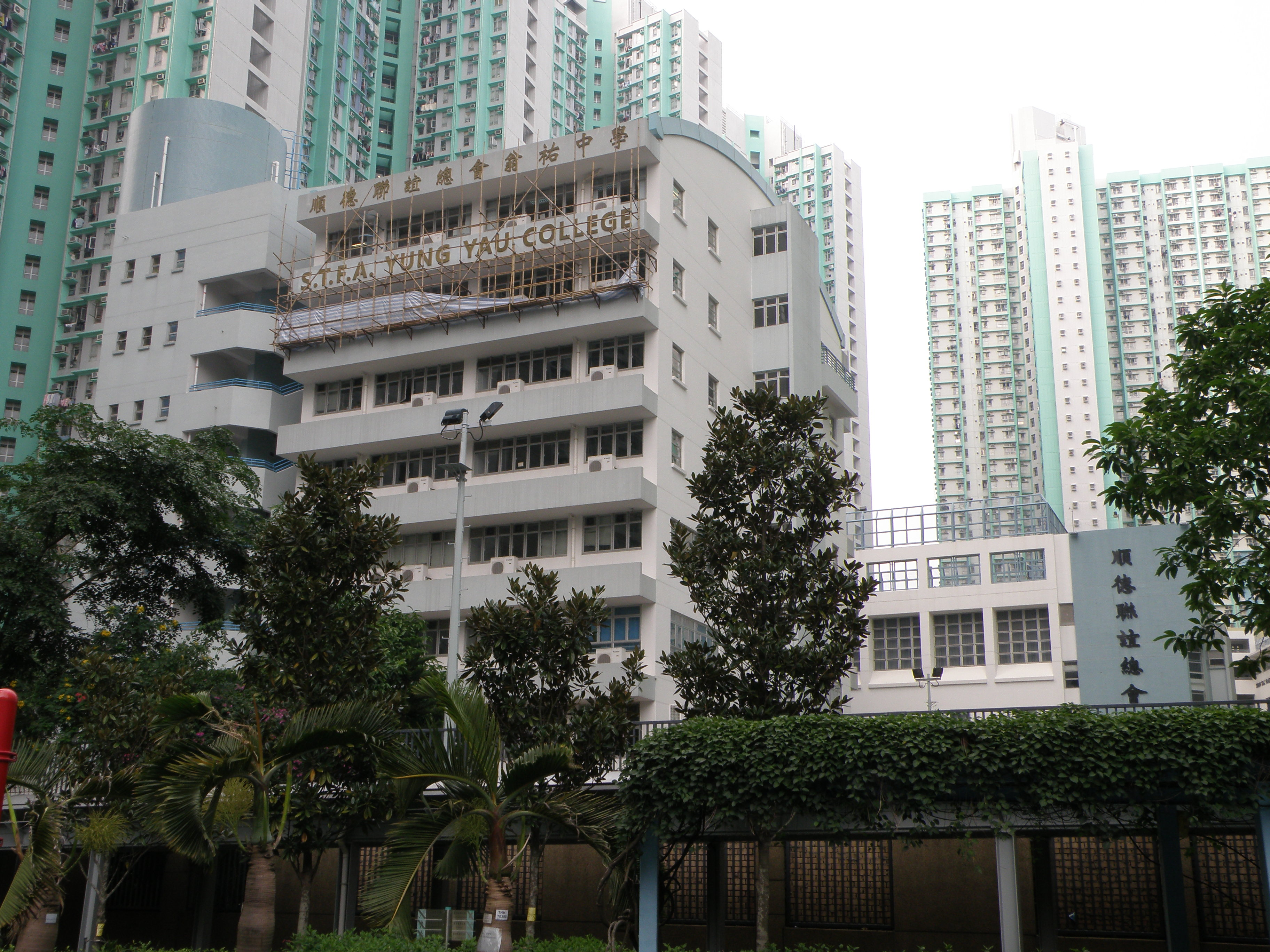 Shun Tak Fraternal Association Yung Yau College in Tin Shui Wai, Hong Kong.